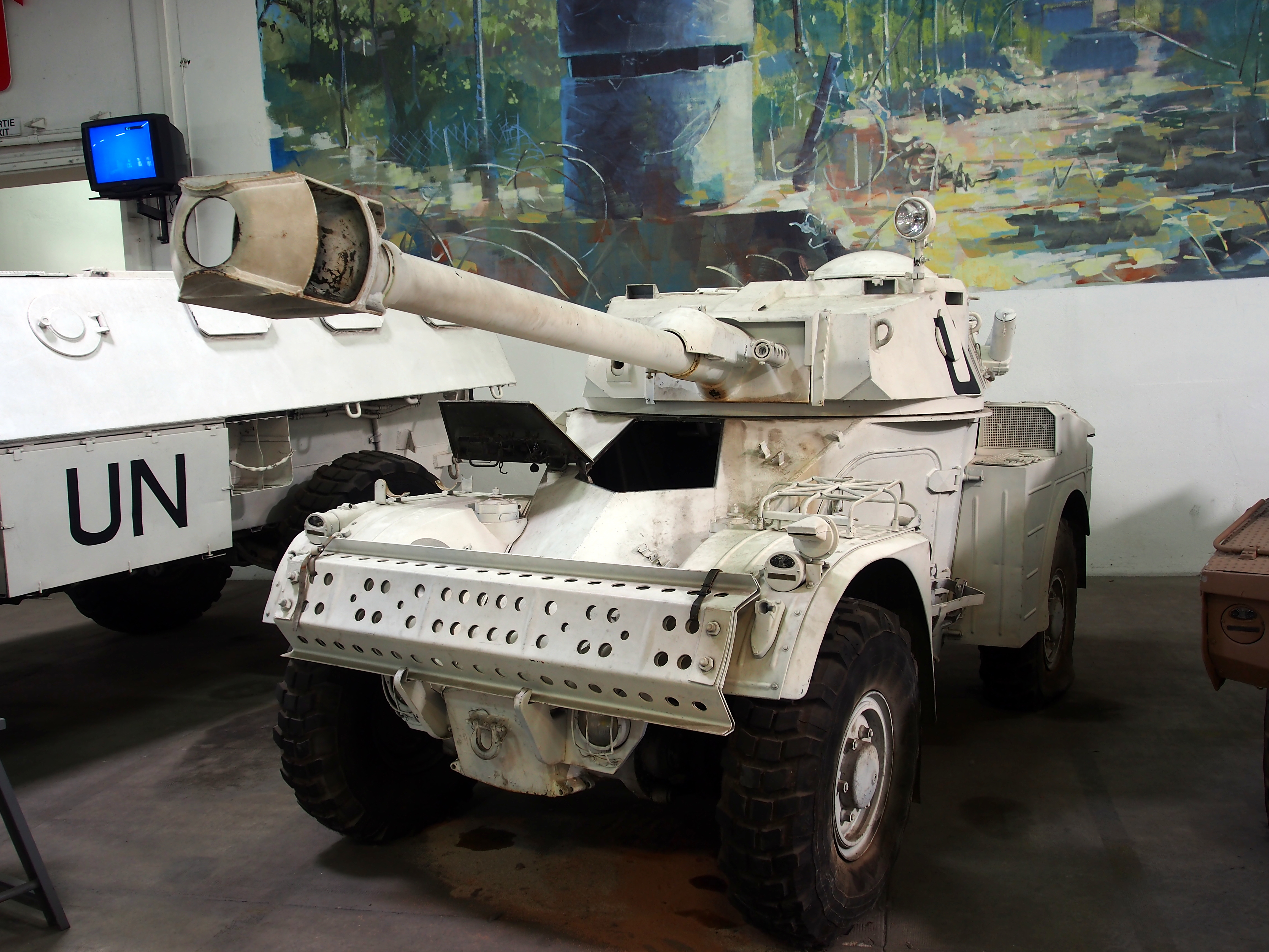 Photographed in the Musée des Blindés, France.